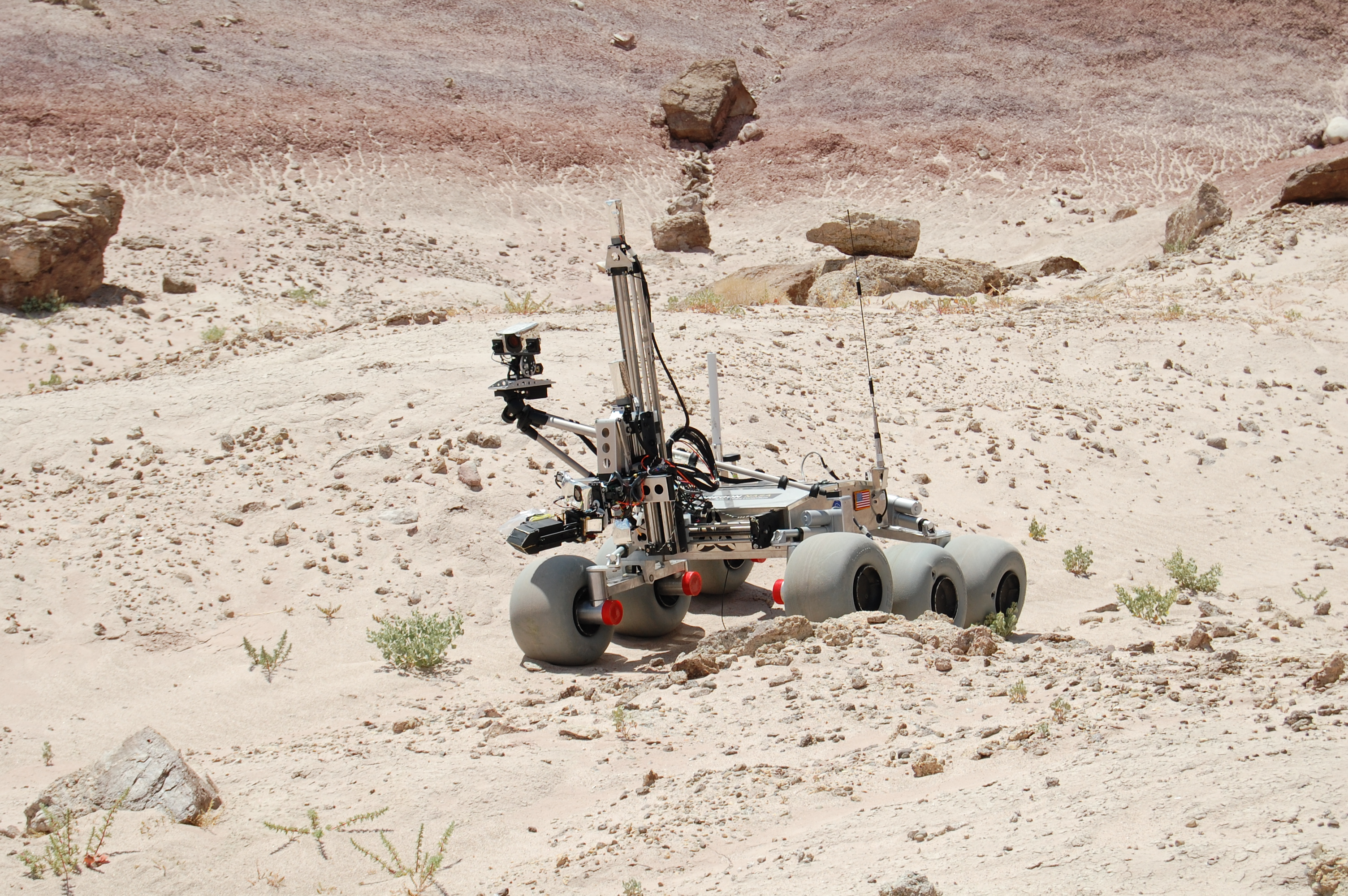 The Oregon State University Robotics Club's Mars Rover on the Sample Return mission at the 2010 University Rover Challenge. Oregon State University placed first with a total of 315/400 points.